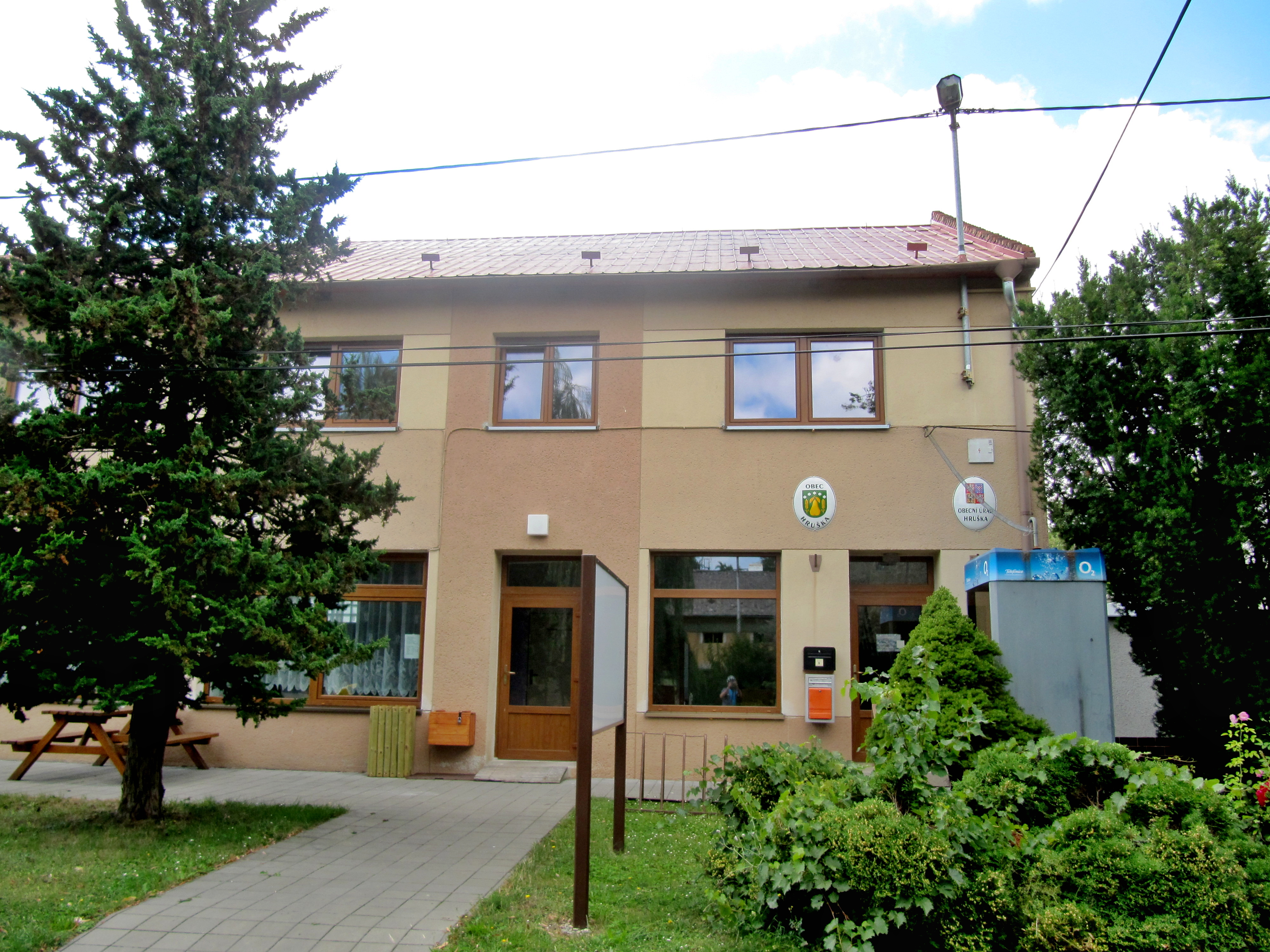 Hruška, Prostějov District, Czech Republic.